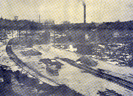 Mine Yard, Broughton, NS. English interests had hoped to develop the coal seam at Cochrane's Lake, about twelve miles from Sydney. Some mining was undertaken and construction of the town started. However, perhaps because too much was spent on the details and modern conveniences of the "most up-to-date modern city", the lack of attention to the actual mine operation or the failure to secure clear title to the coal lease, the town eventually was abandoned.]